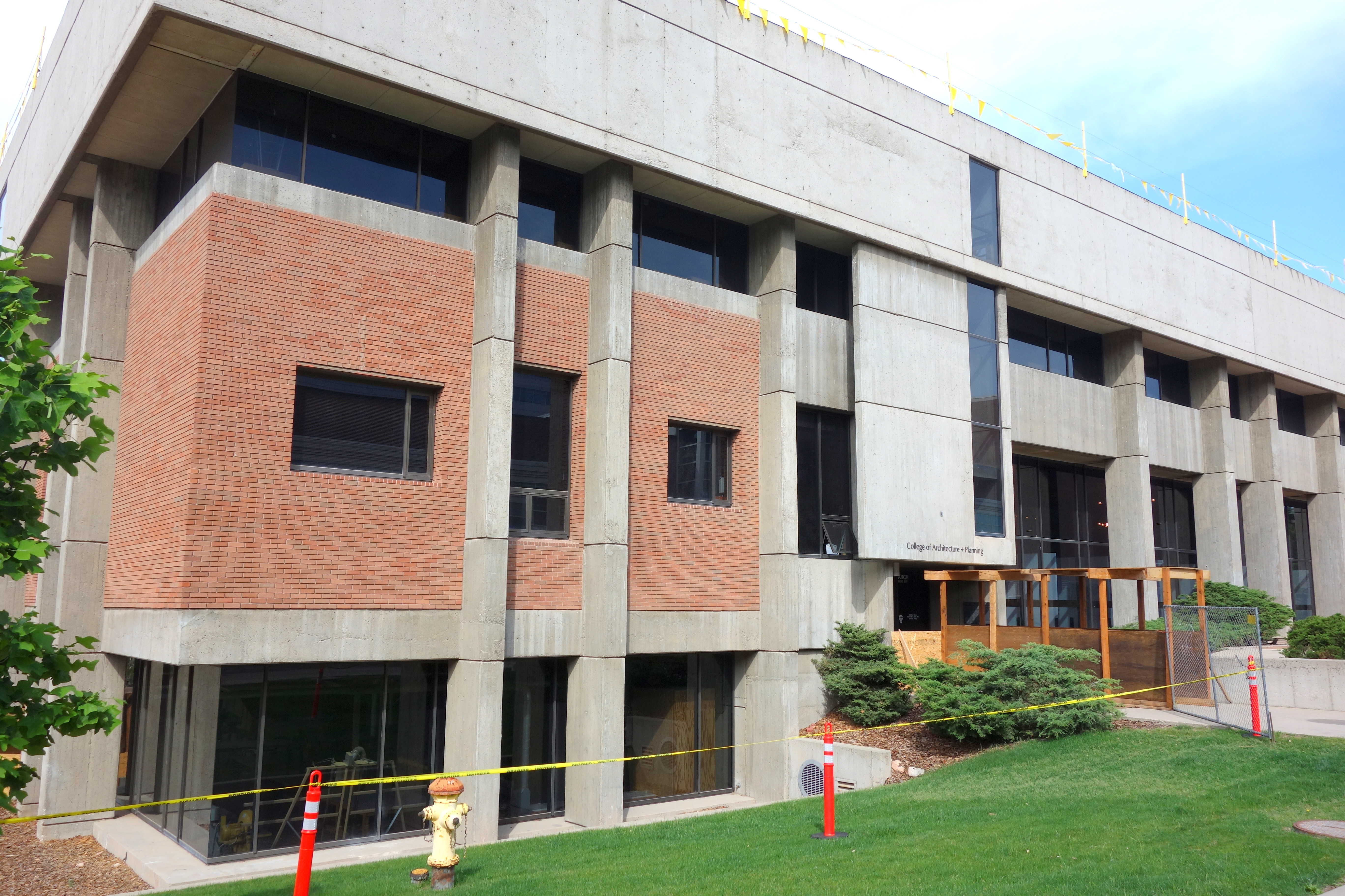 Building on the University of Utah campus, Salt Lake City, Utah, USA.